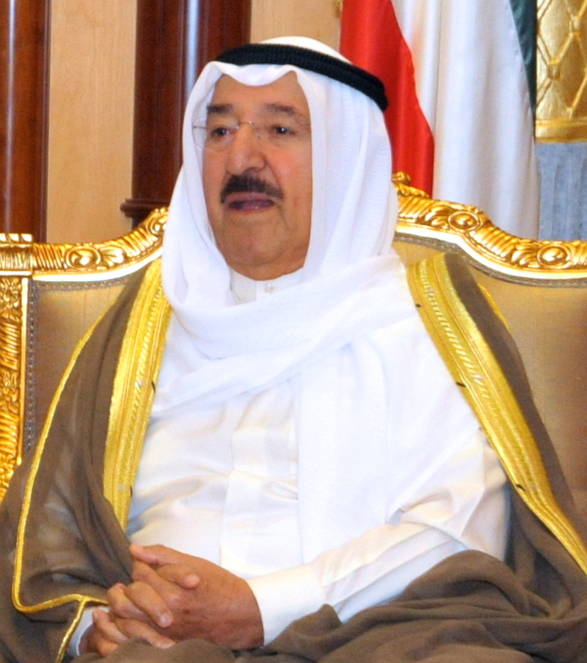 U.S. Secretary of State John Kerry meets with Kuwaiti Amir Sheikh Sabah al Ahmed Al Sabah during a visit to Kuwait City on June 26, 2013.[State Department photo/ Public Domain]